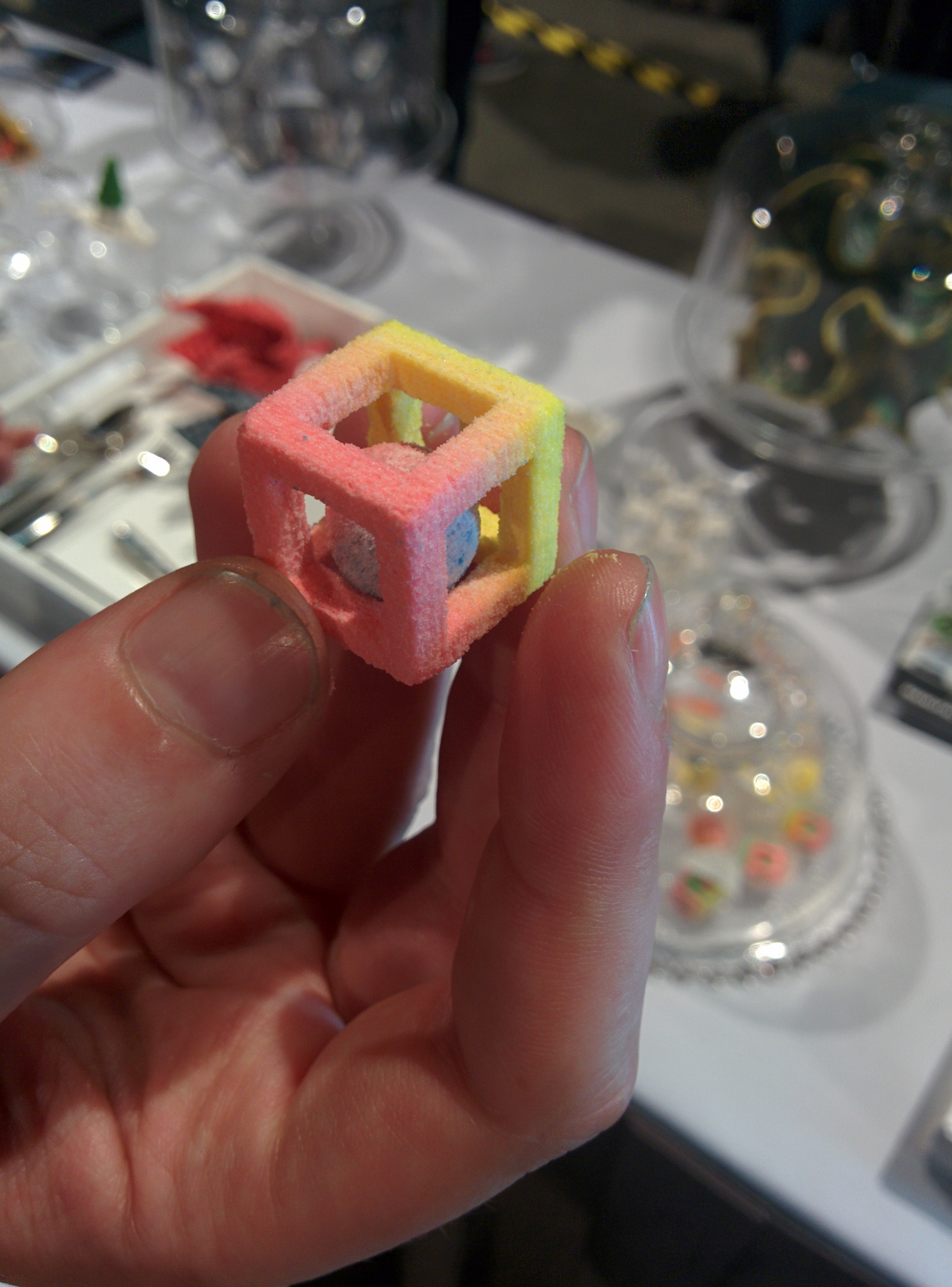 A 3D printed edible artifact made at SIGGRAPH 2015.